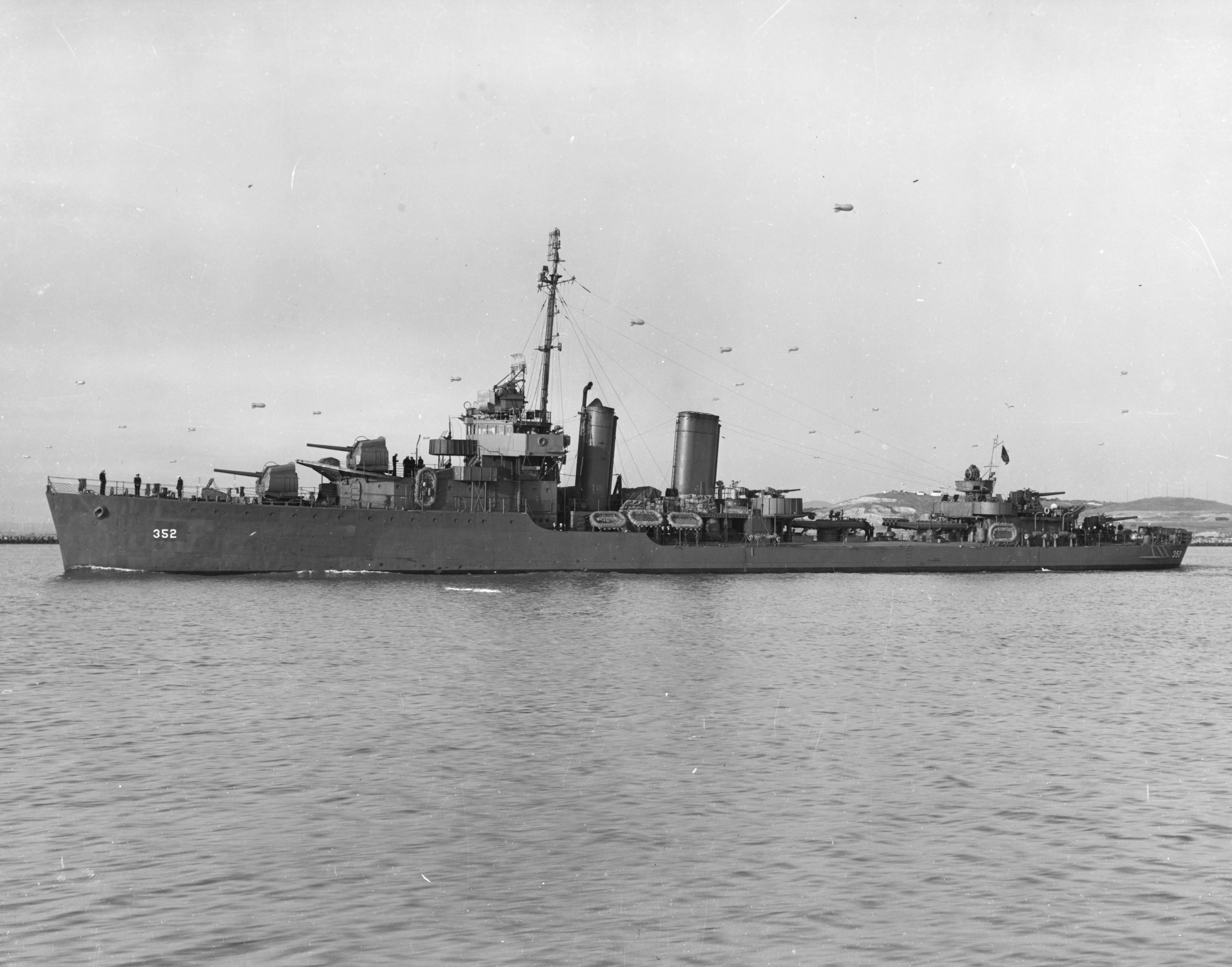 The U.S. Navy destroyer USS Worden (DD-352) off the Mare Island Navy Yard, California (USA), on 21 November 1942. Note the barrage balloons aloft in the distance.